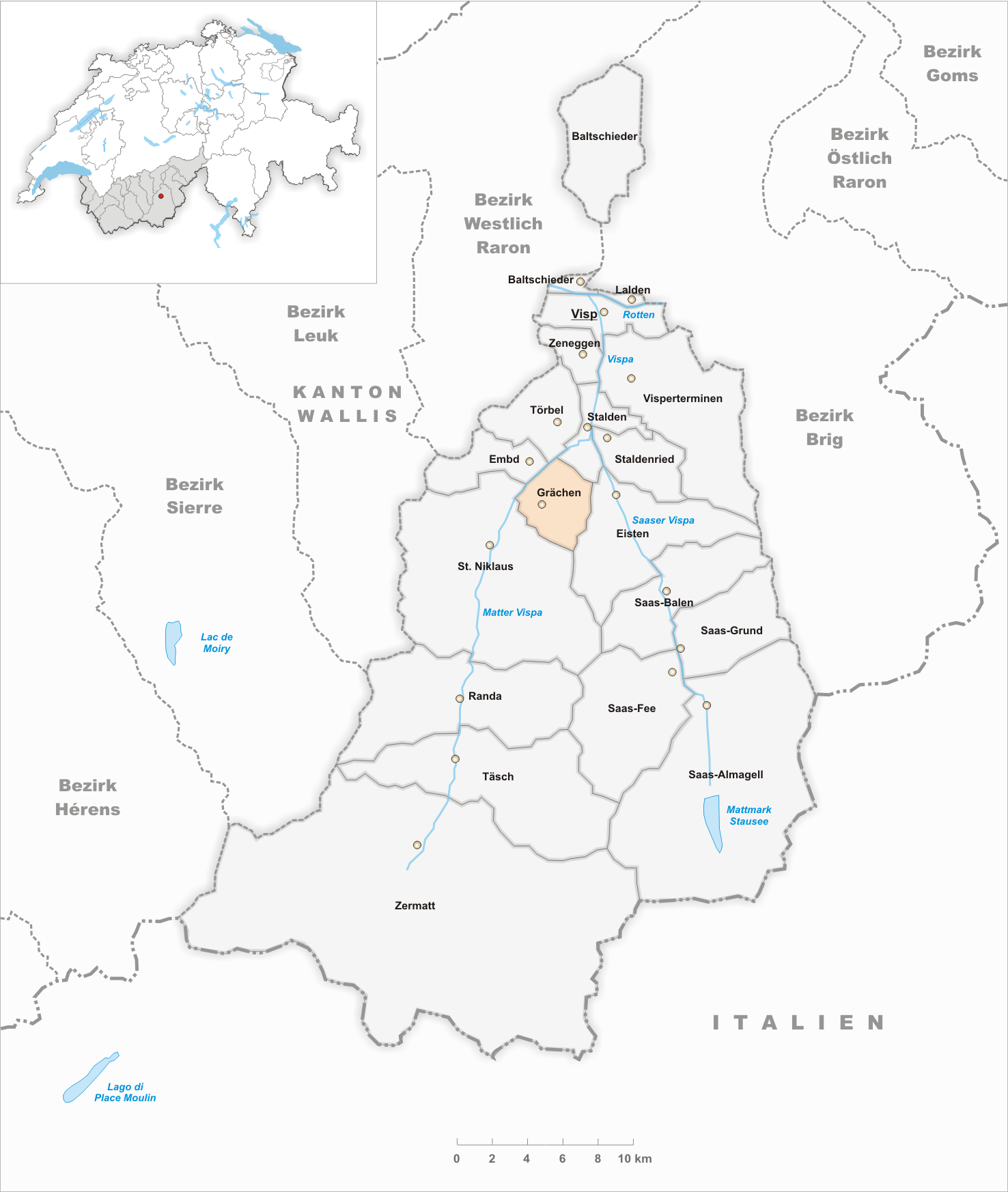 Municipality Grächen